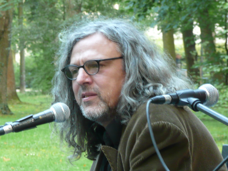 German poet and playwright Ulrich Zieger during an interview at the Erlanger Poetenfest 2011